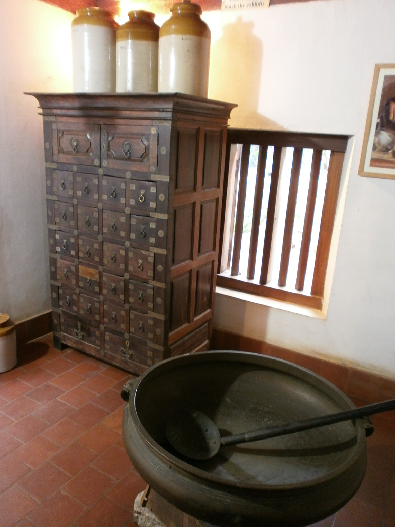 Dakshina-Chitra-Household-Items-1